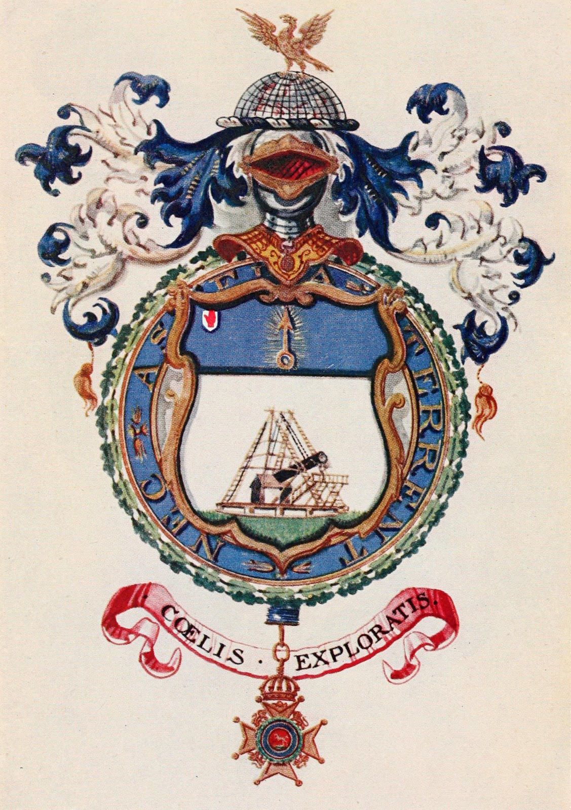 Cropped scan from Phoebe Allen's 1912 book Peeps at Heraldry, showing heraldry of Sir William Herschel, 1738–1822, astronomer. William Herschel's full heraldic achievement, including his coat of arms depicting his 40-foot telescope. In the chief of the coat of arms is the planet symbol of Uranus. Text in the image is as follows: In the heraldry, behind the coat of arms: "NEC AS[obscured]TERRENT" (presumably "NEC ASPERA TERRENT") In the heraldry, on the ribbon: "CŒLIS · EXPLORATIS."